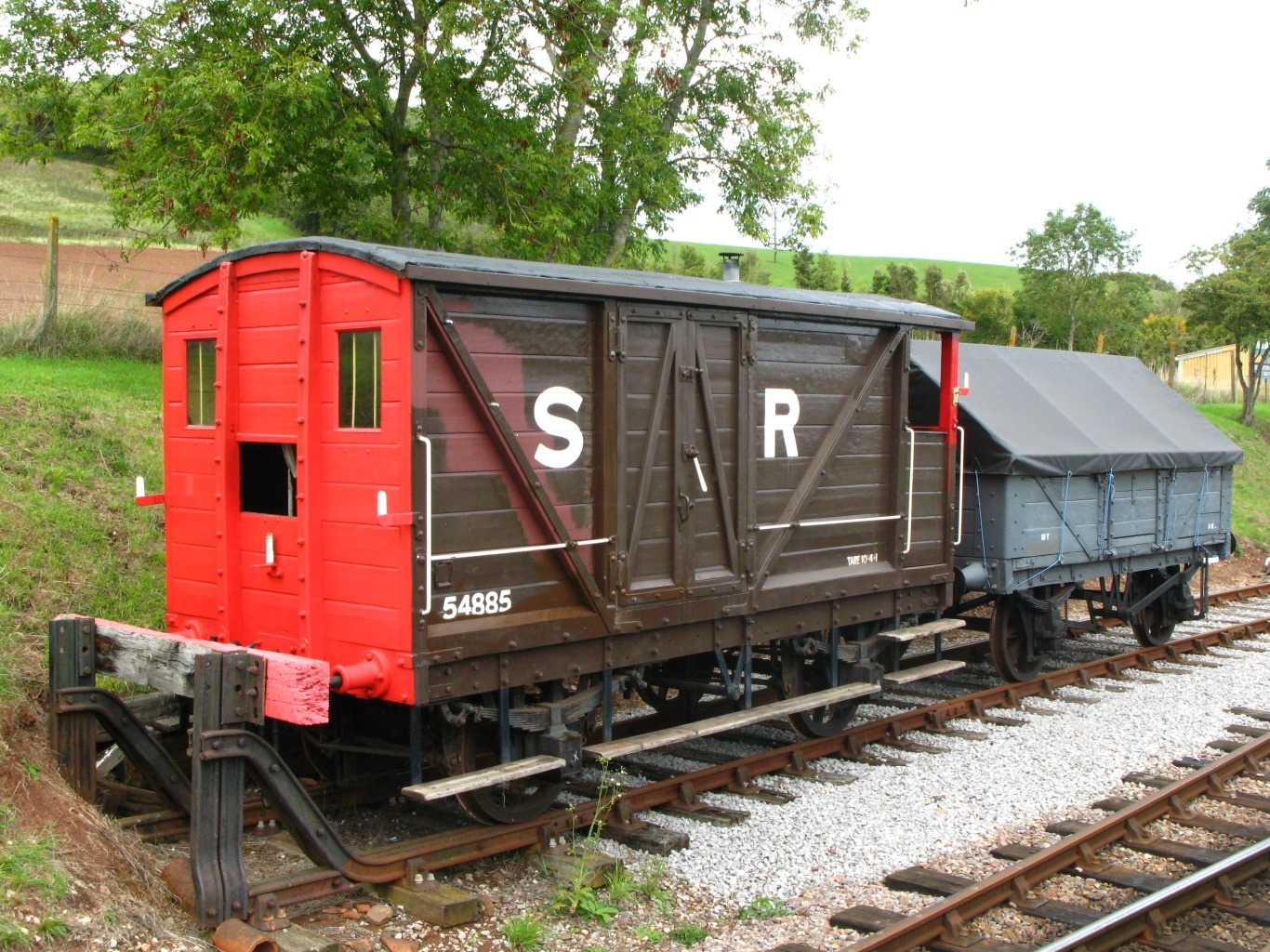 two wagons at the Somerset & Dorset Trust Museum in Washford, Somerset. The brake van (left) is a former London & South Western railway vehicle which is carrying the later Soutern railway colours as their number 54885. Beside that is an open wagon which carries the identity of London & North Eastern Railway number 424123.